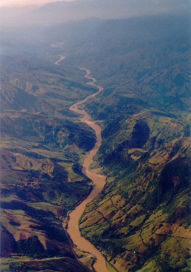 Seasonally Dry Tropical Forests are patchily distributed and in peril. In Antioquia, this inter-Andean valley is a narrow canyon bounded by the humid slopes of the Andean cordilleras and enclosed by the belt of lowland humid rainforests of the Lower Cauca-Nechí "refuge". Increasing landscape change and a forthcoming massive flooding for a hydroelectric dam (Pescadero-Ituango) threaten the poorly known biota of this canyon, including a rare, new bird species that is endemic to it, just discovered by a team led by Carlos Esteban Lara and with the collaboration of Sandra V. Valderrama Ortiz, Diego Calderón, Daniel Cadena, and me. (Auk 129:537–550; for a PDF click